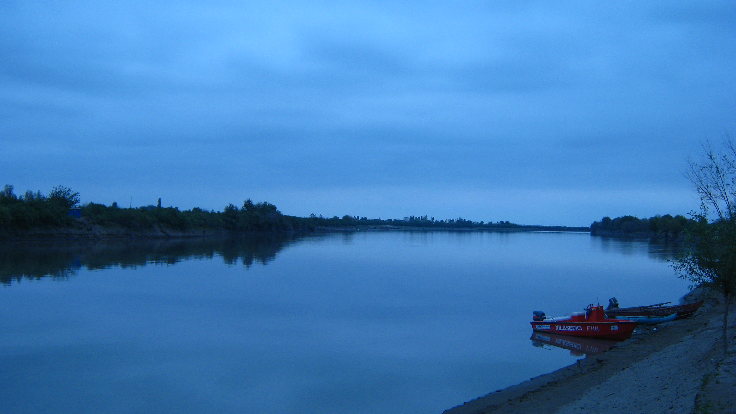 Salyan Rayonu